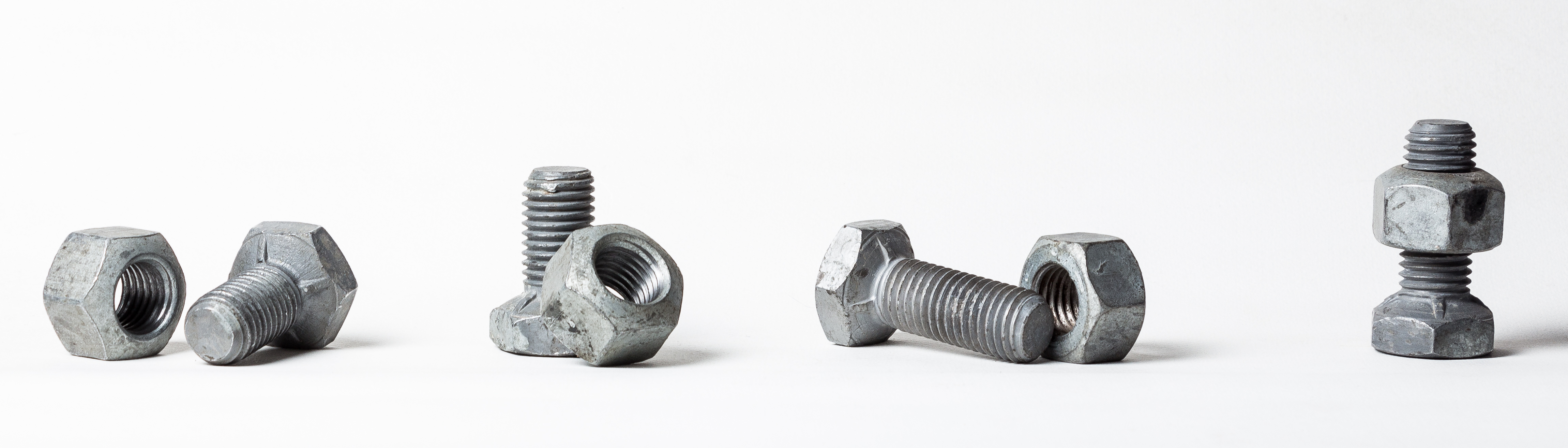 Nuts and bolts sequence.